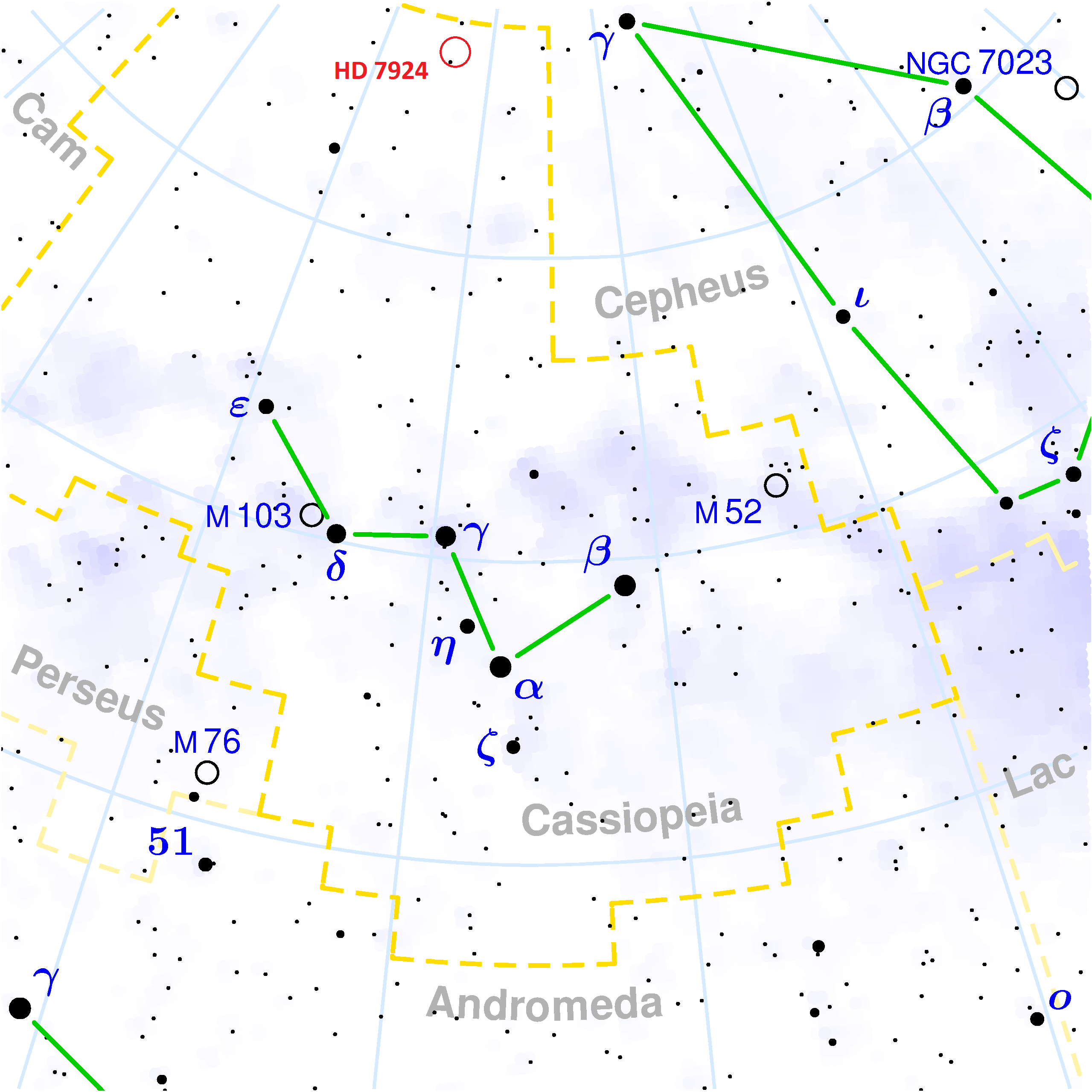 Approximate position of star HD 7924 in the constellation Cassiopeia.